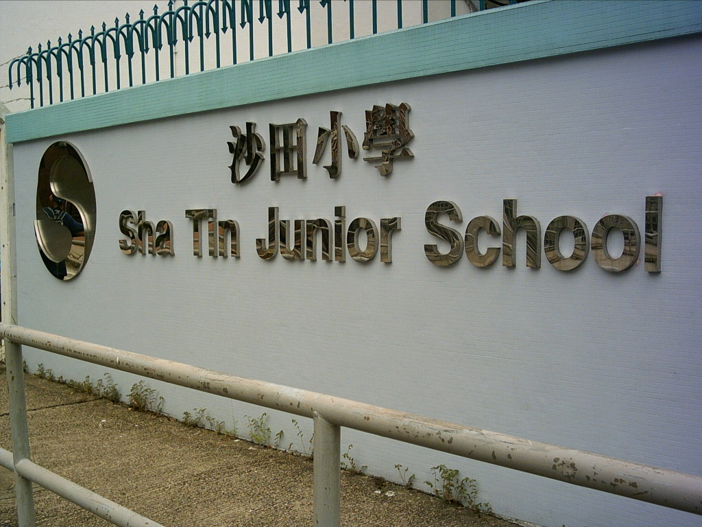 Big sign of Sha Tin Junior School. Taken by myself in August, 2006.